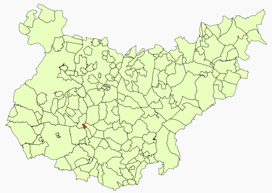 La Lapa